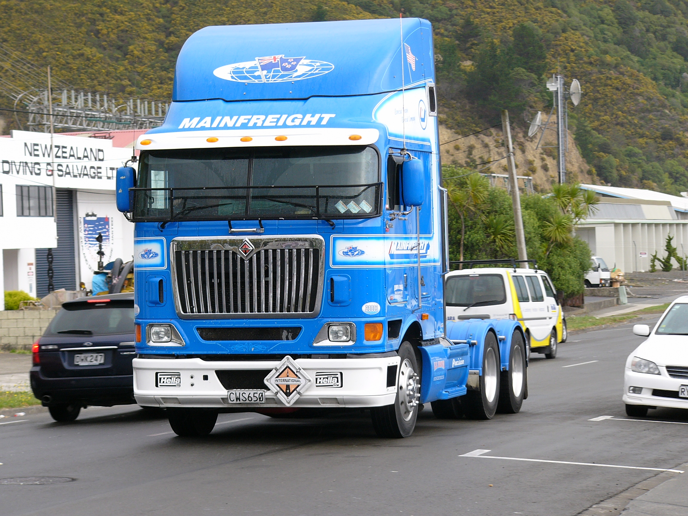 2005 International 9800